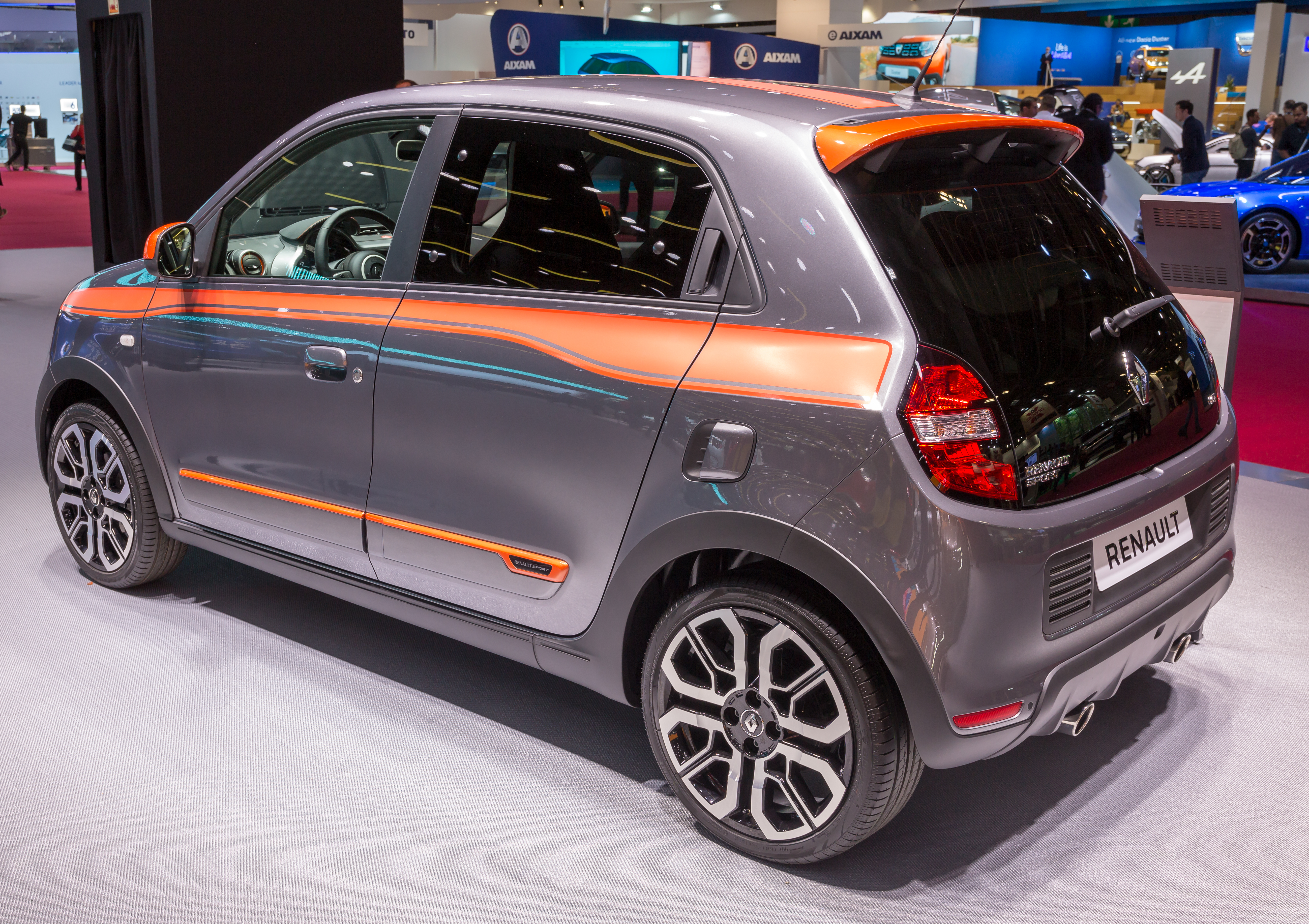 Renault Sport Twingo III, Mondial d´Automobile 2018